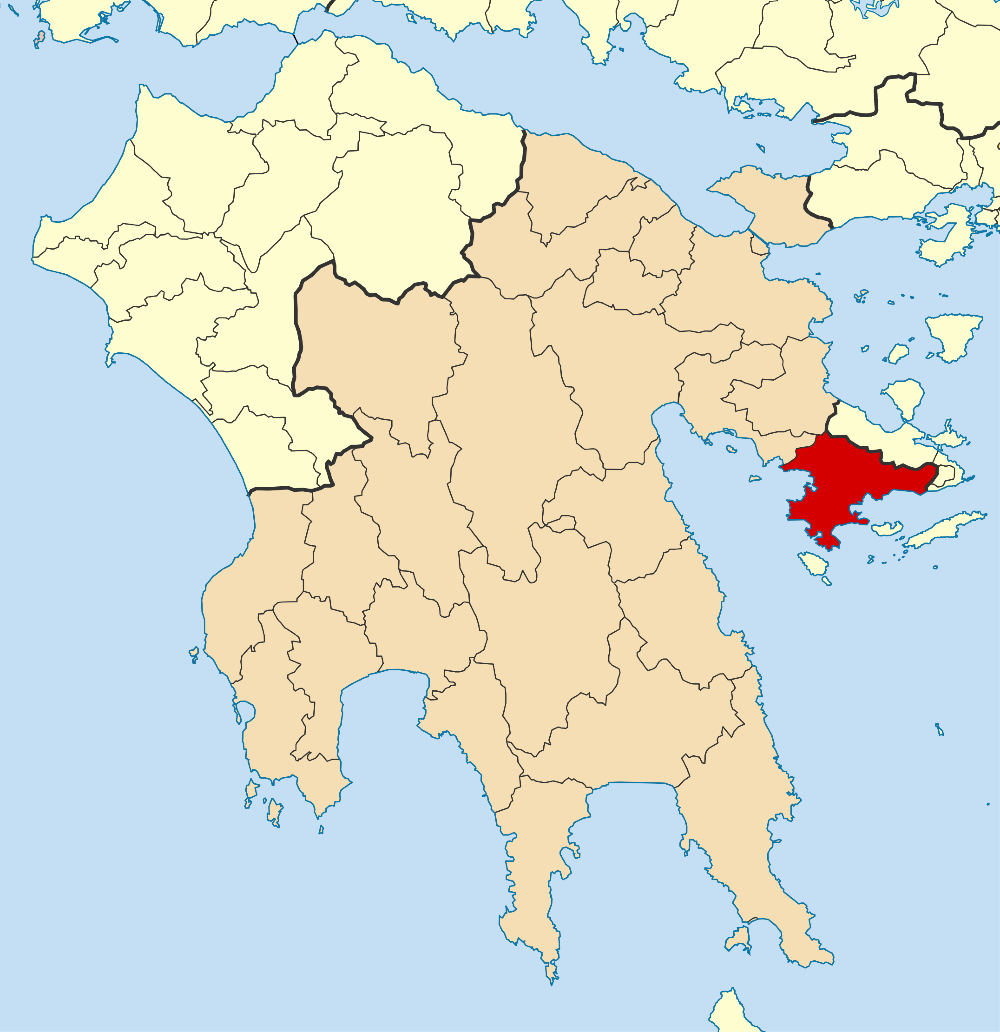 Locator map for Ermionida municipality in Greek region Peloponnese (2011)